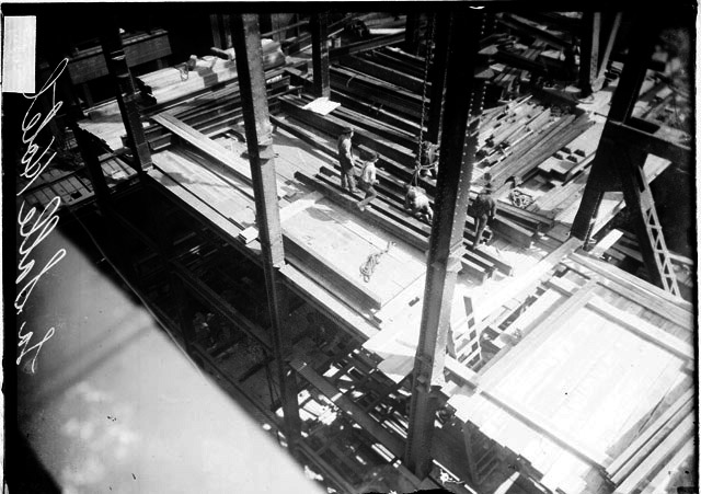 Historical La Salle Hotel in Chicago, under construction in 1909